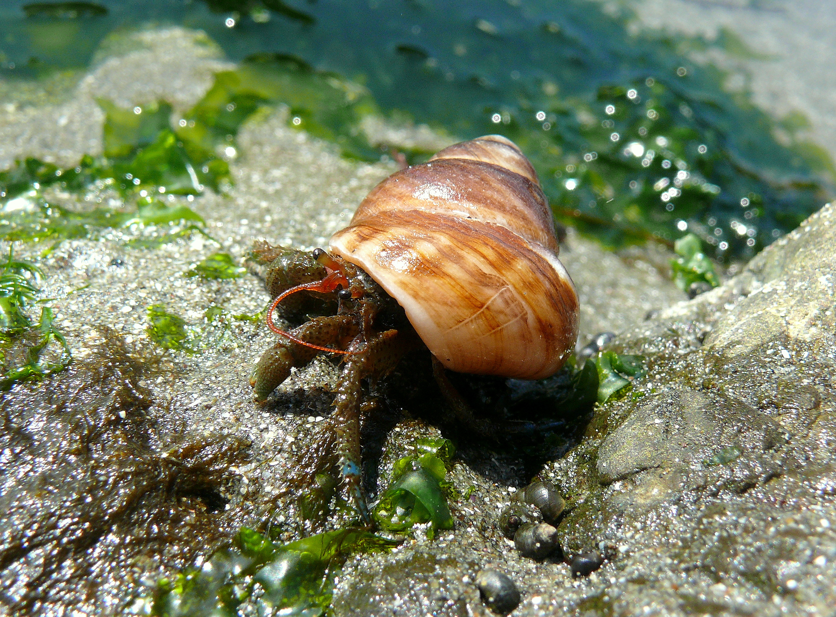 Blue-Banded Hermit Crab (Pagurus samuelis) sporting an upgraded home he found lying around in the tide pools (a brown turban shell).